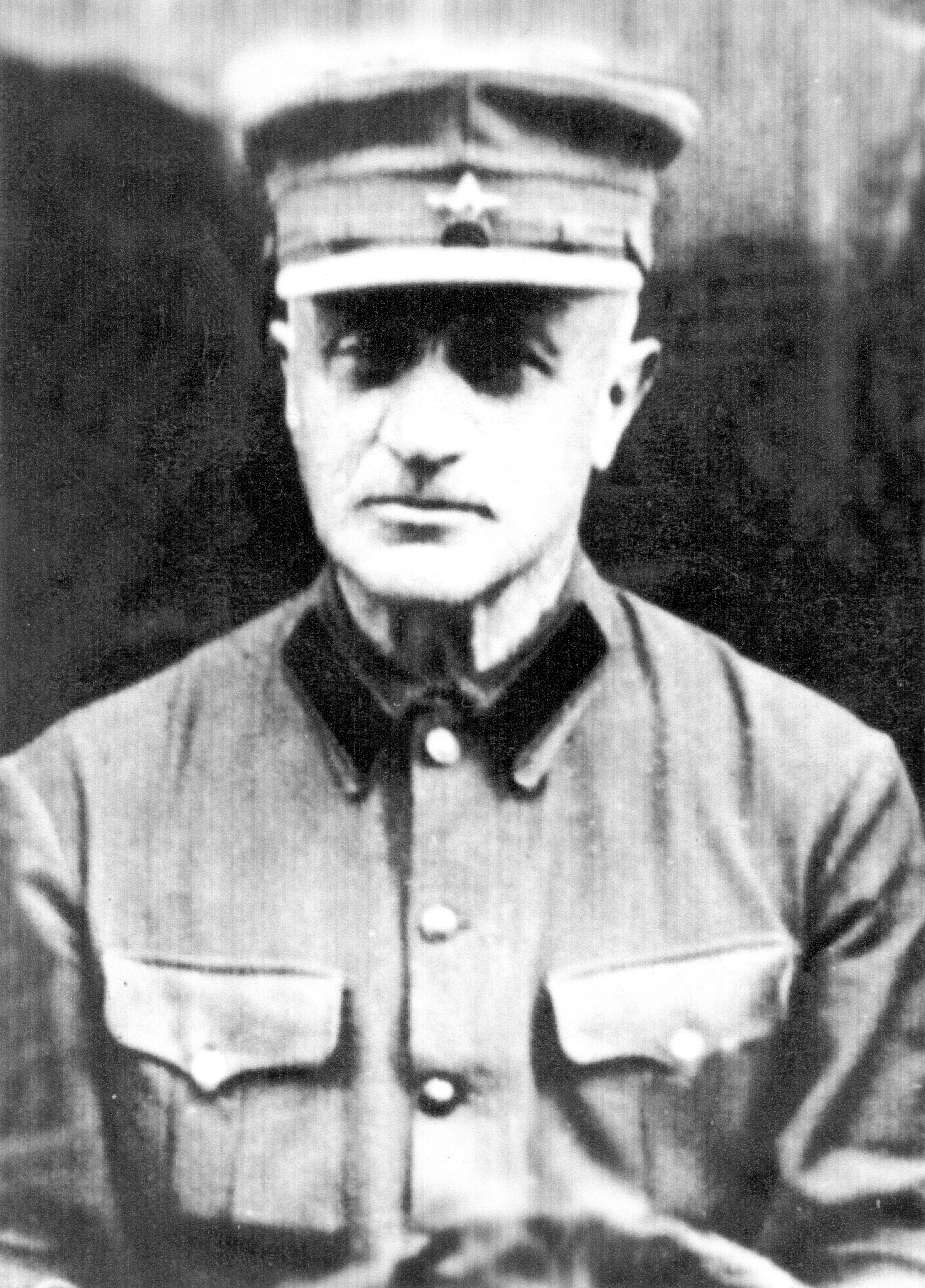 Christophor after return from captivity in Turkey, 1921